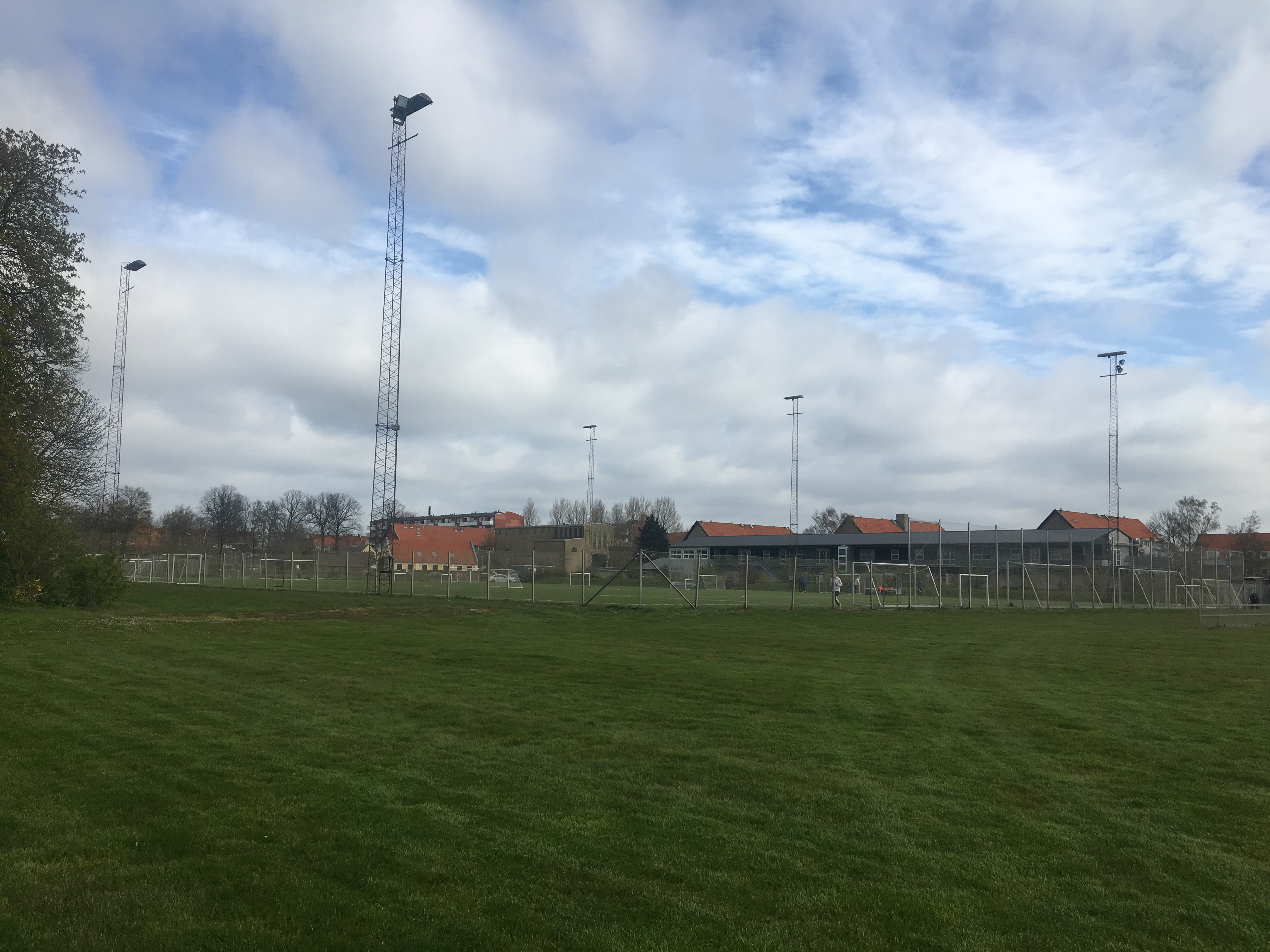 The sporting venue John Tranums Allé in Tårnby Municipality, Denmark